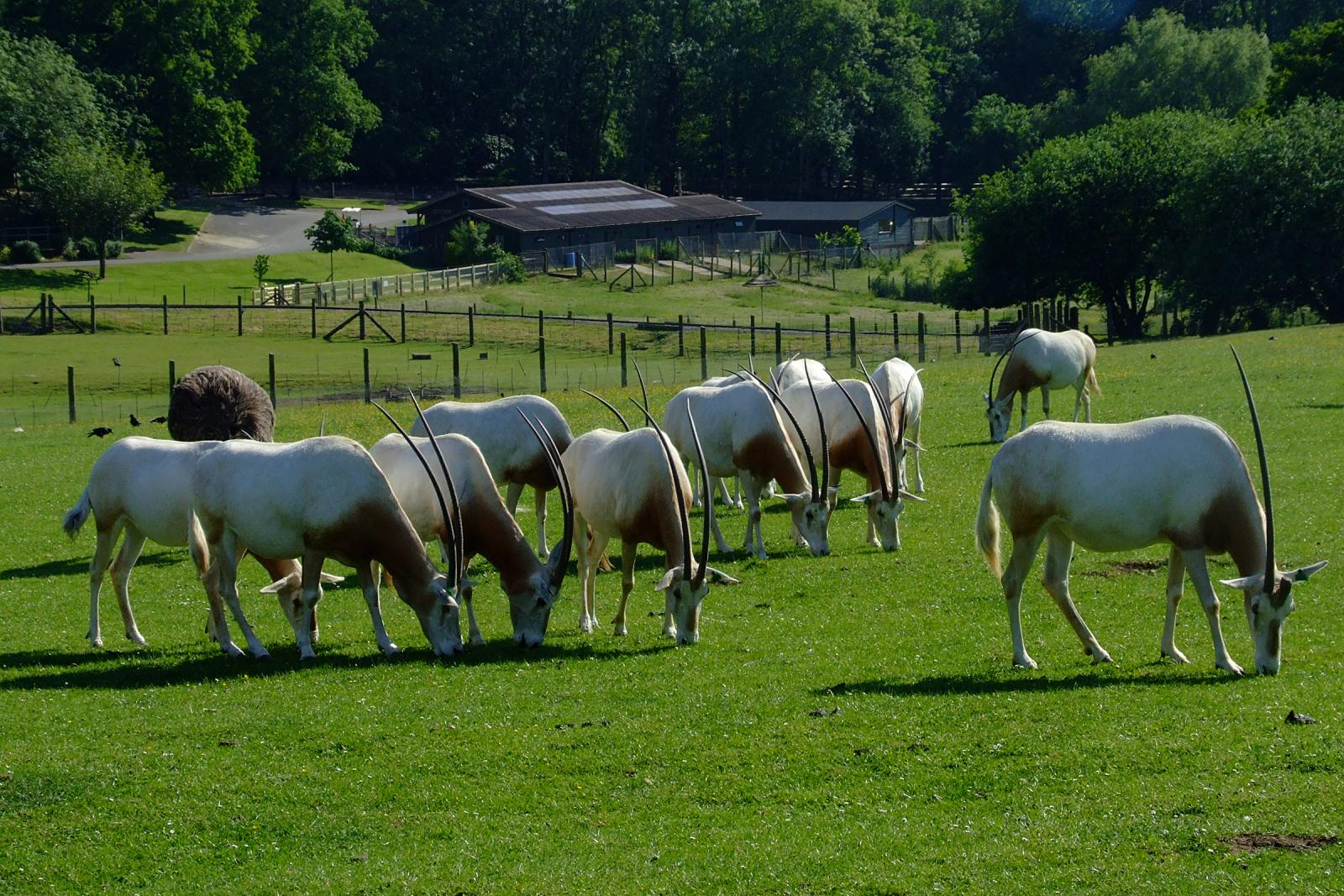 A heard of Scimitar oryx grazing at Marwell Wildlife, Hampshire, England.